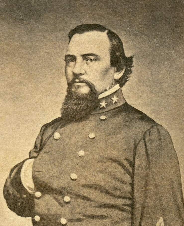 General Roger Weightman Hanson (1827-1863) C.S.A.; Lexington, Kentucky native; Commander of the Orphan Brigade, killed in the Battle of Murfreesboro, Tennessee. Part of Hammer Family Photographic Collection, University of Kentucky